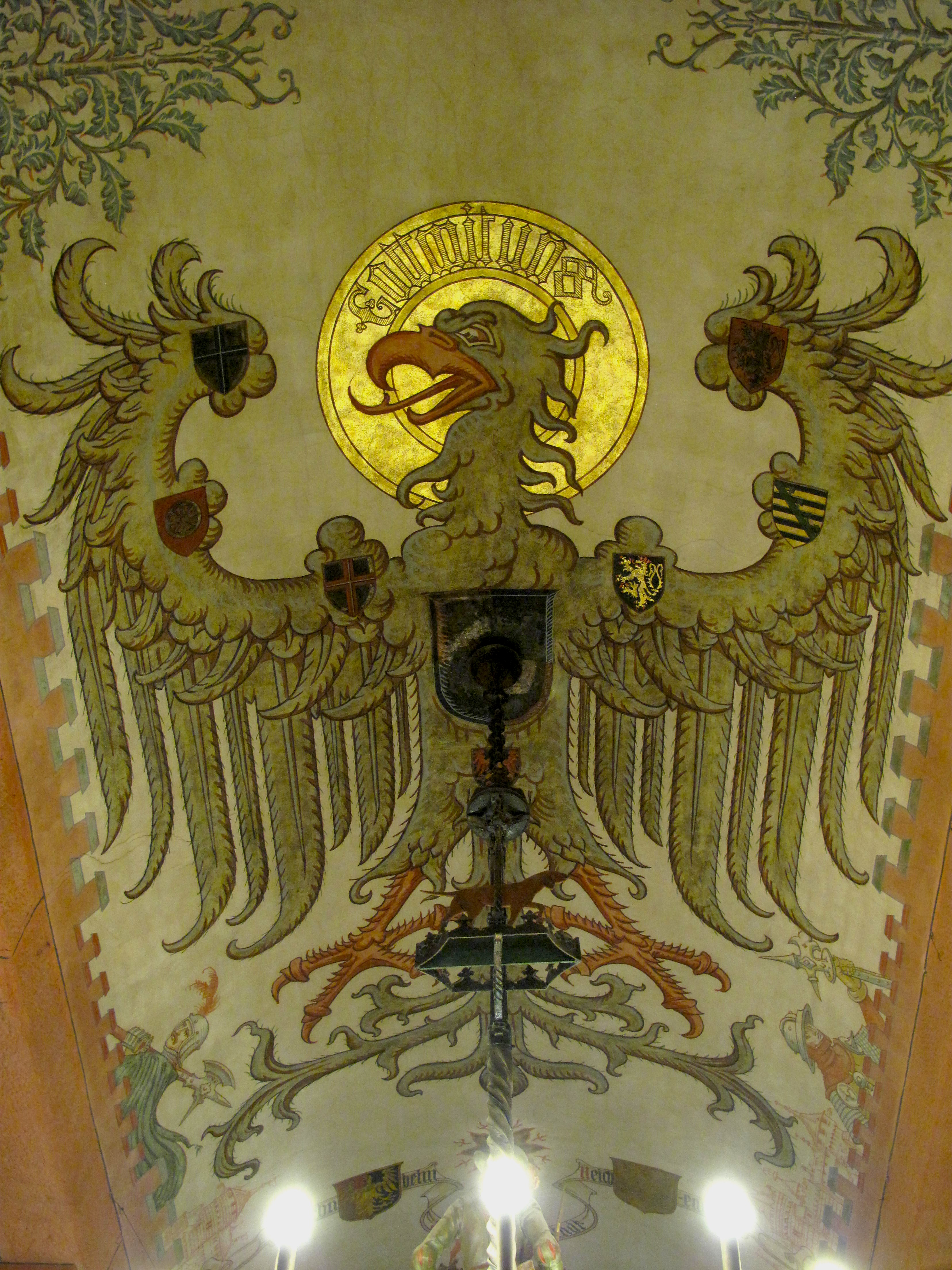 The imperial eagle on the ceiling of the Kaiser room in the castle of Haut-Koenigsbourg (Bas-Rhin, France).